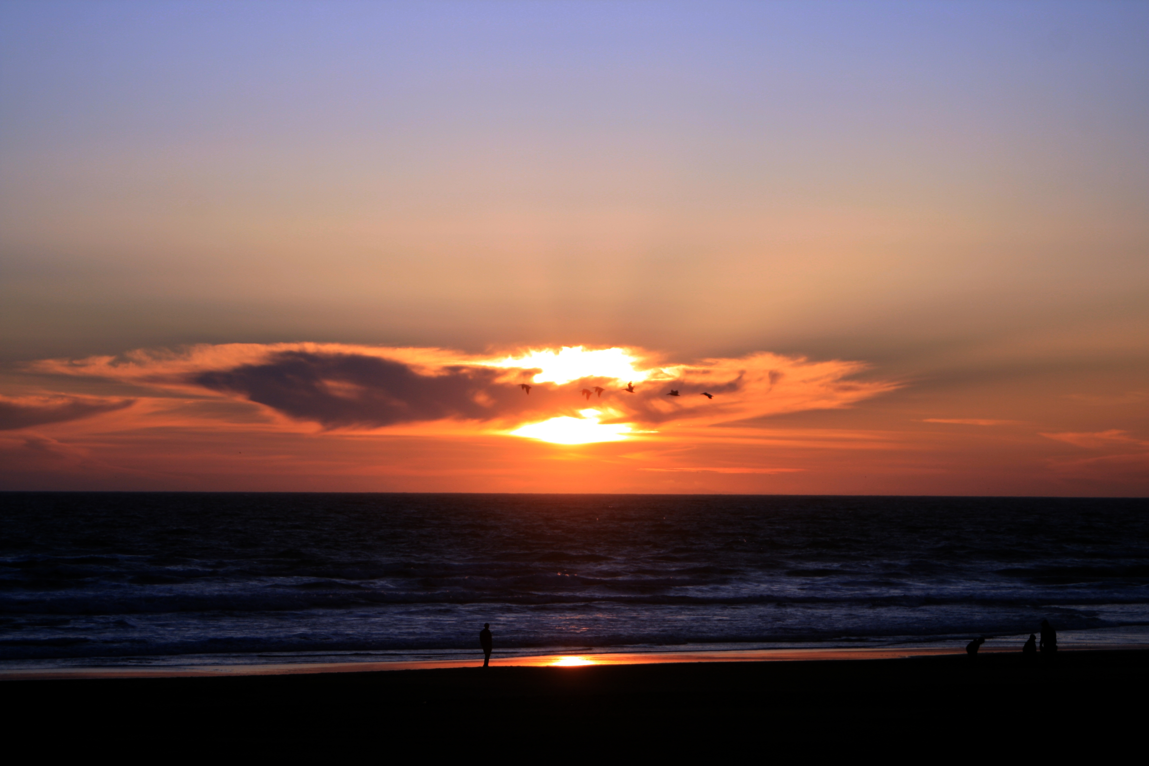 Clouds and their shadows. The picture was taken at Ocean Beach, San Francisco